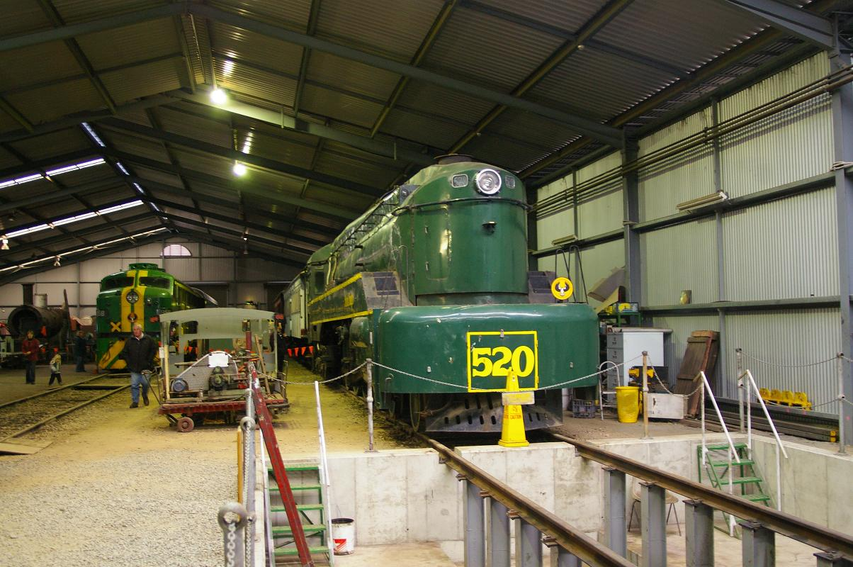 A preserved example of the 520 class, the SteamRanger 520 Sir Malcolm Barclay Harvey in the Steamranger workshops, Mt Barker SA.